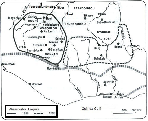 Wassoulou Empire